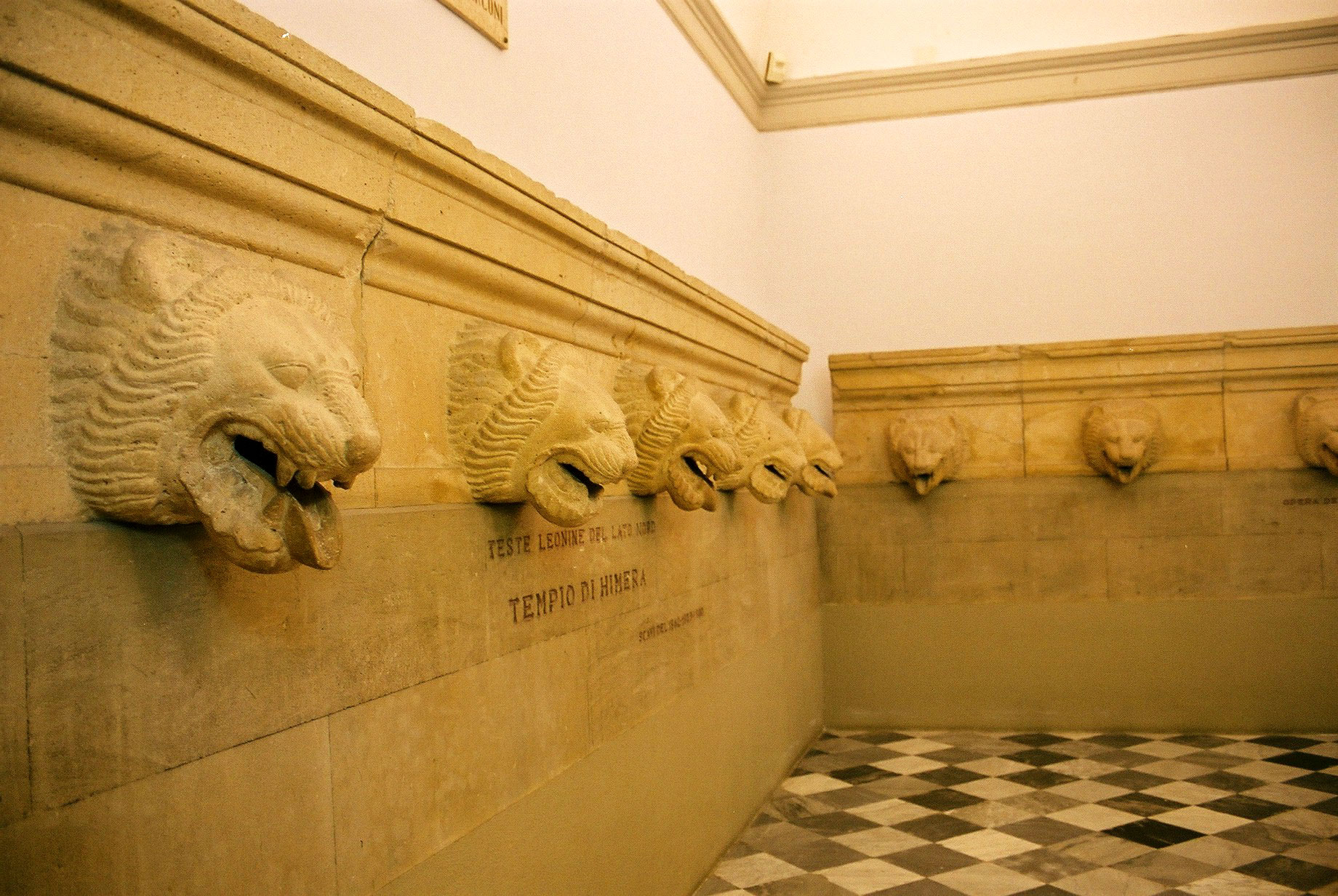 Museo Regionale Archeologico, Palermo. Lion Heads as Gargoyles from the temple of Himera.